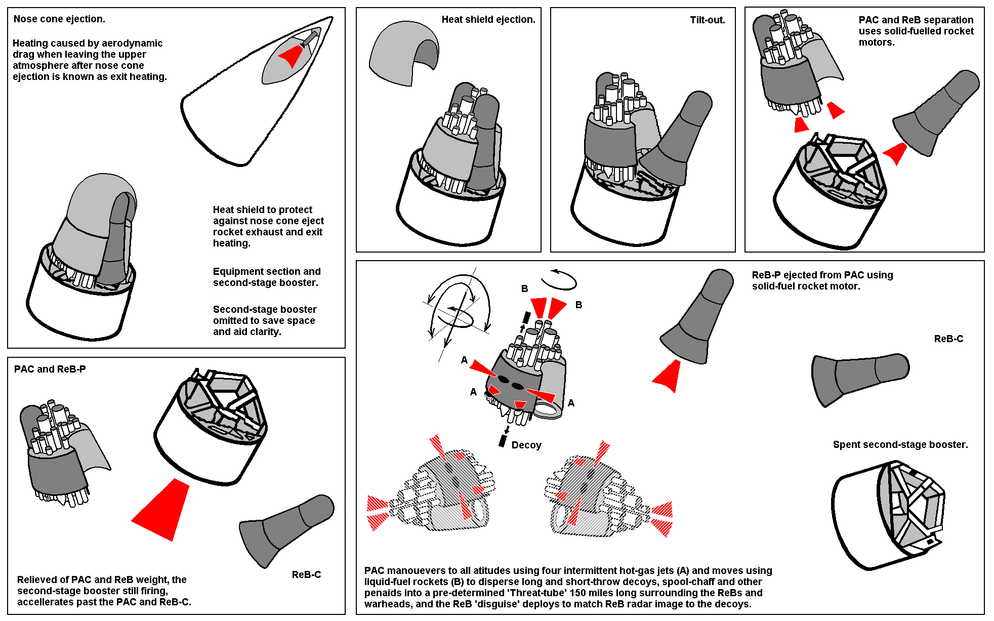 Drawn by the author User:Brian.Burnell from a sketch and description in a scientific paper presented at a Royal Aeronautical Society Symposium 2004, and re-published as ISBN 1-85768-109-6. The drawing is entirely the author's own work and should be attributed to Brian Burnell.